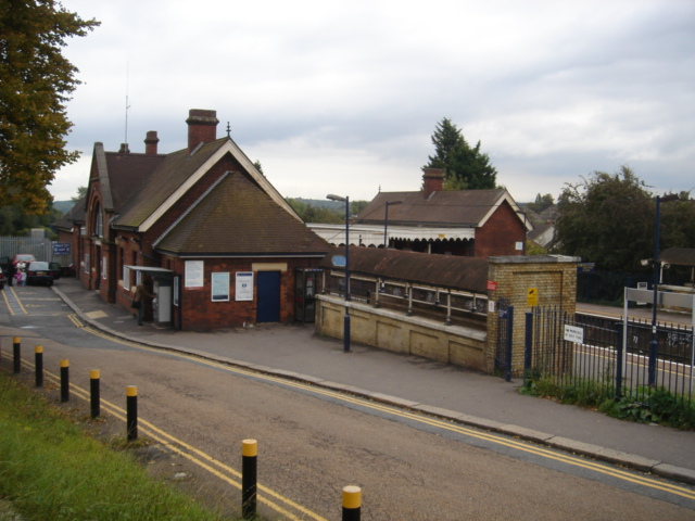 Main station building on Platform 1 at High Brooms railway station. Photographed on 29 September 2007.